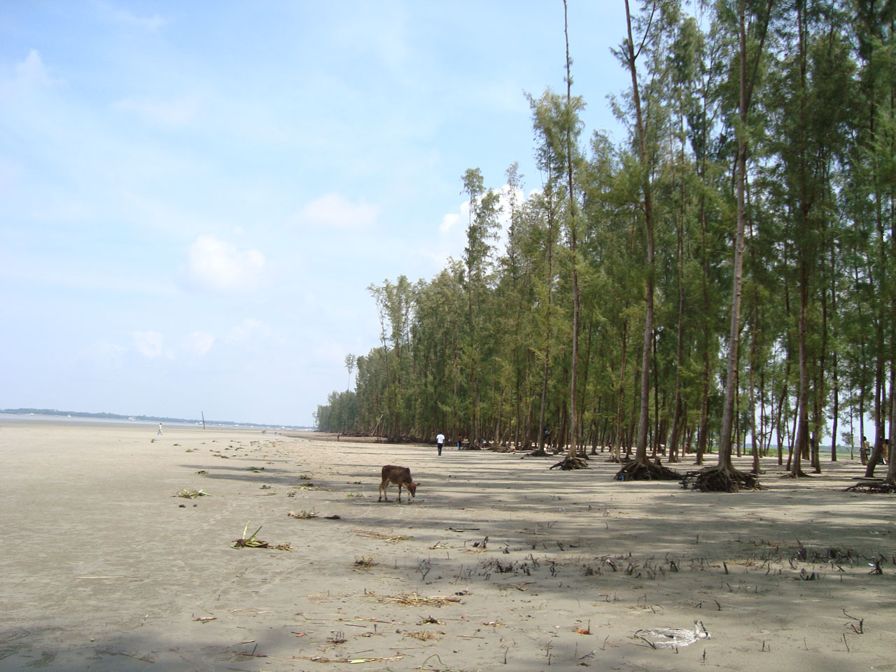 A partial view of Parki Sea Beach, Patenga, Chittagong (Near Kafco site)